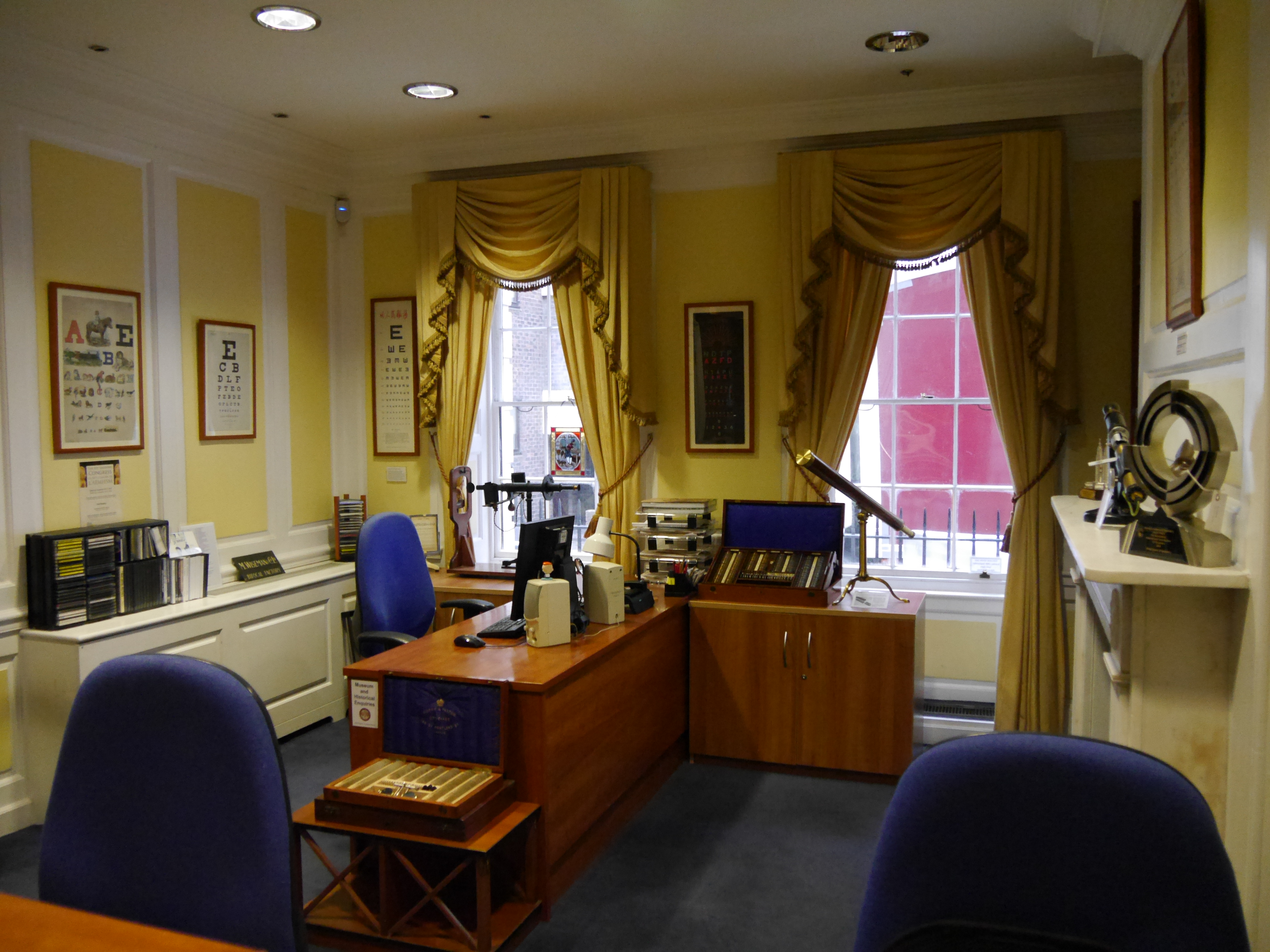 College of Optometrists, London, September 2016